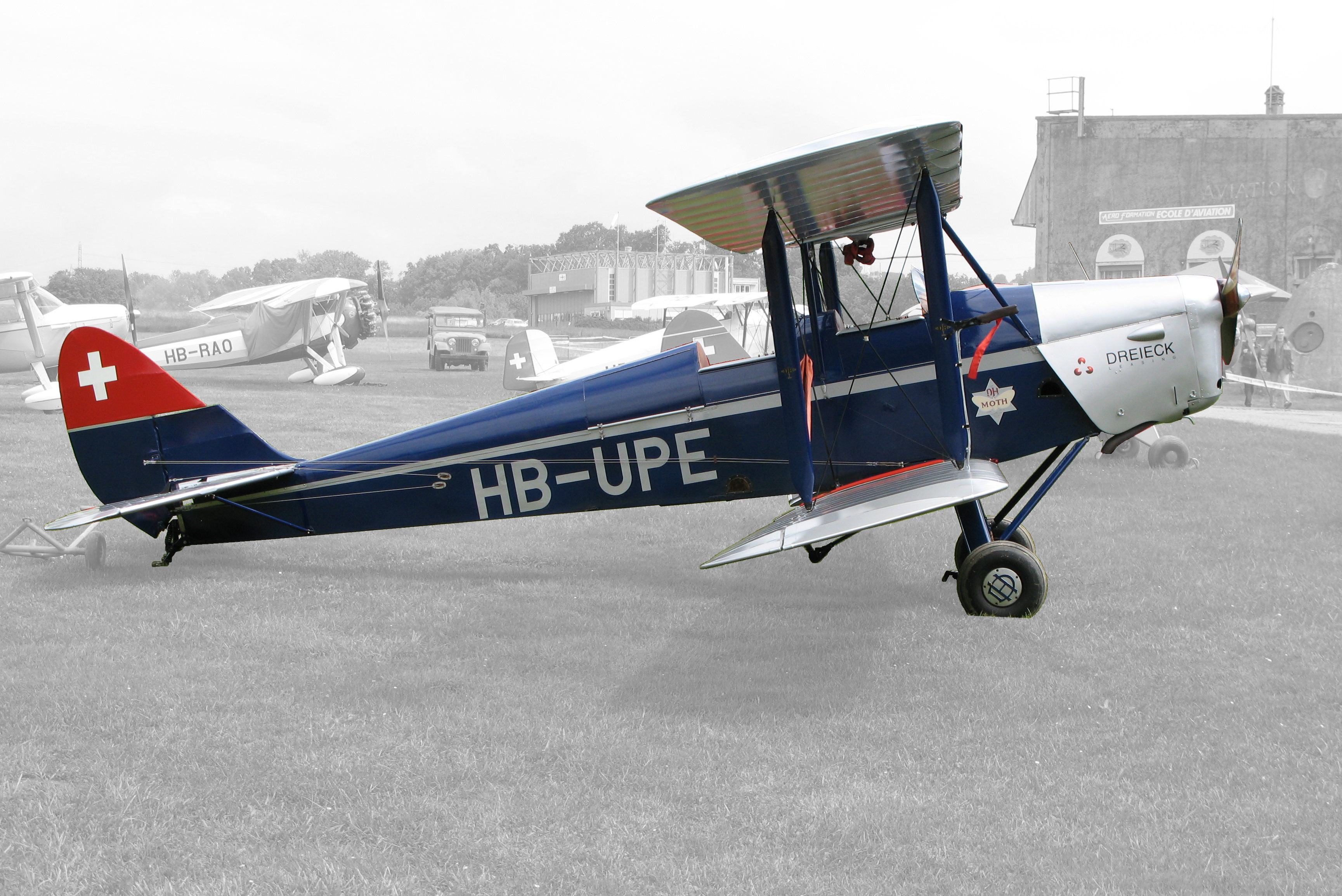 DH60.GIII Moth Major